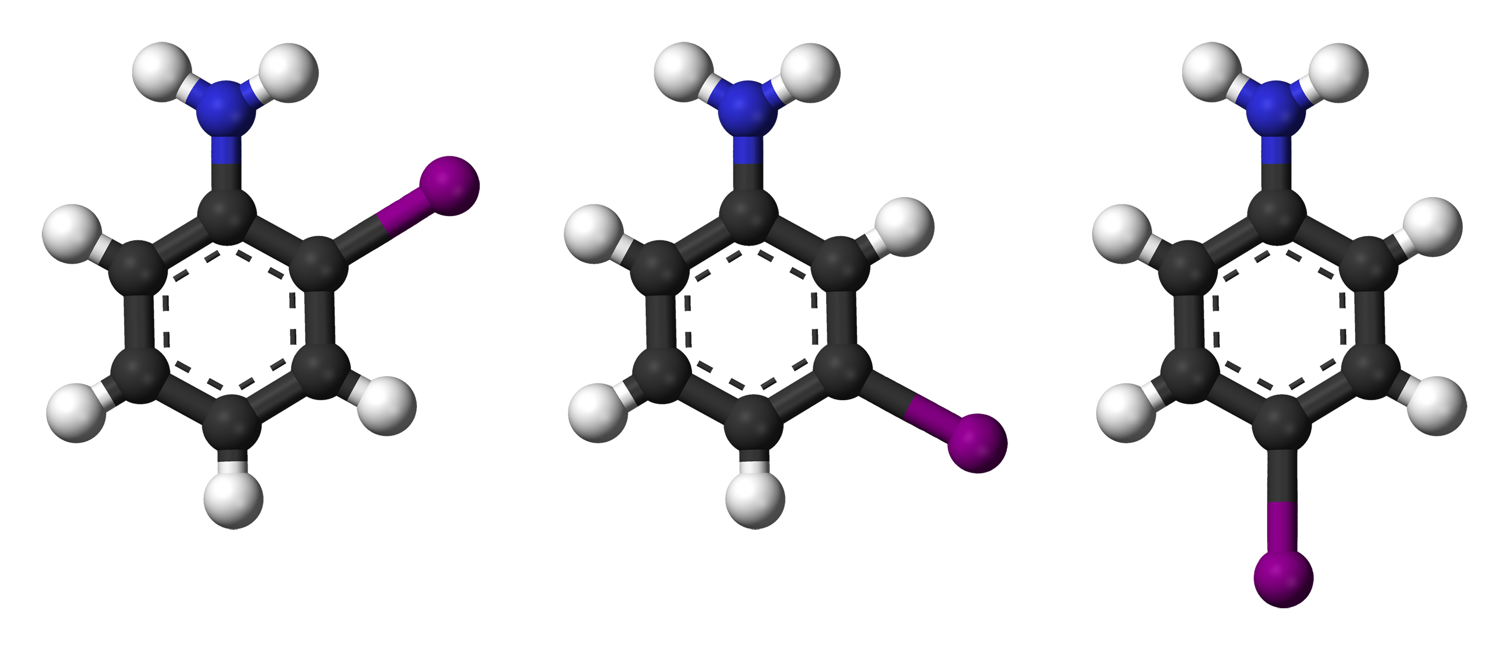 Ball-and-stick models of the three isomers of iodoaniline.